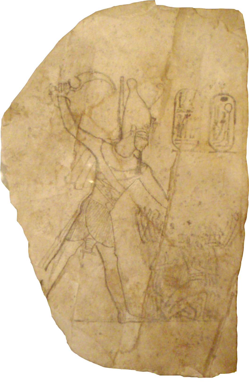 A limestone ostracon depicting Ramesses IV smiting his enemies, from the 20th dynasty, circa 1156-1150 B.C. Background cropped and a highlight touched up using Photoshop. Now residing in the Museum of Fine Arts, Boston.